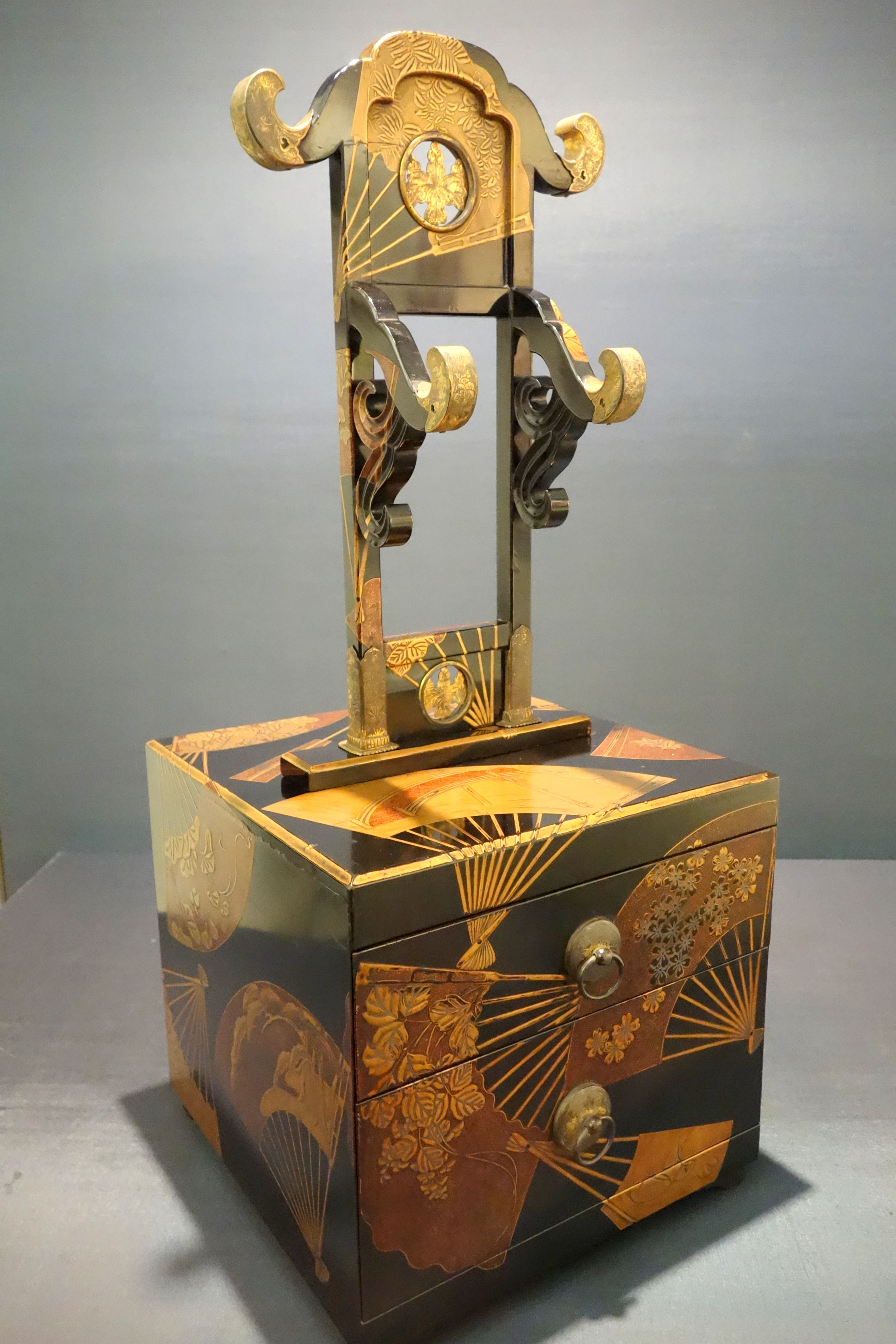 Exhibit in the Tokyo National Museum, Tokyo, Japan. This artwork is old enough so that it is in the public domain.